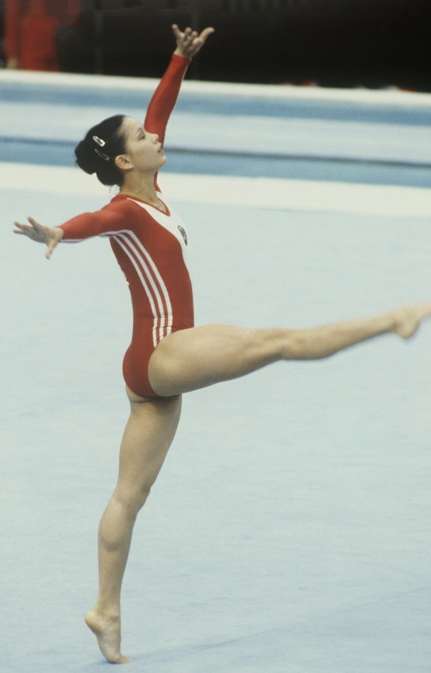 “Soviet gymnast Nelli Kim”. Soviet gymnast Nelli Kim performing her routine during the artistic gymnastics competition at the XXII Olympic Games. Five-time Olympic champion (three gold medals in Montreal in 1976, two gold medals in Moscow in team competition and floor exercise). July 19-August 3, 1980.